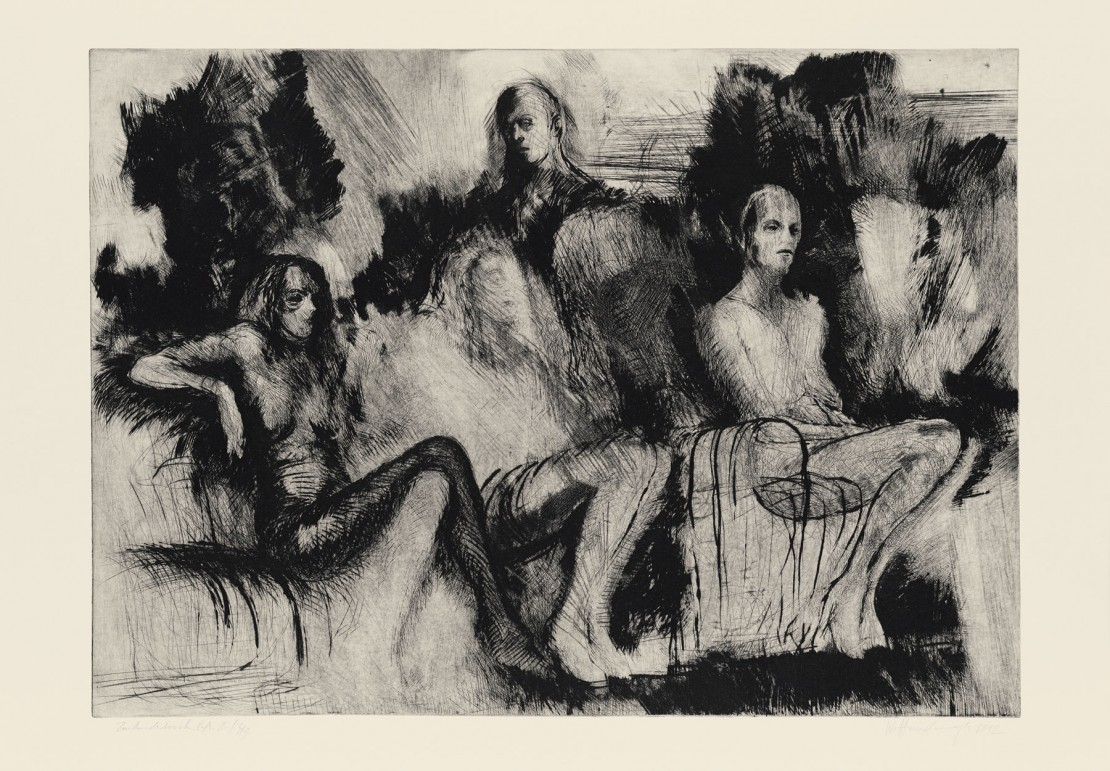 Sitting women, 2012, etching with cold needle and scraper, second stage print, plate 63 x 88 cm